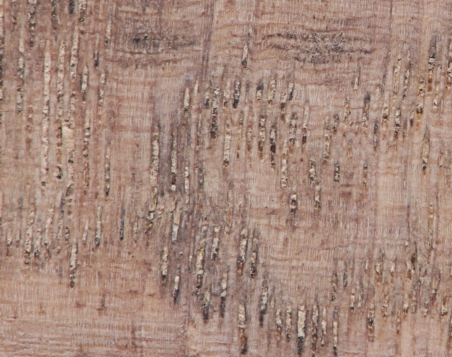 Wood of Quercus ilex, closeup